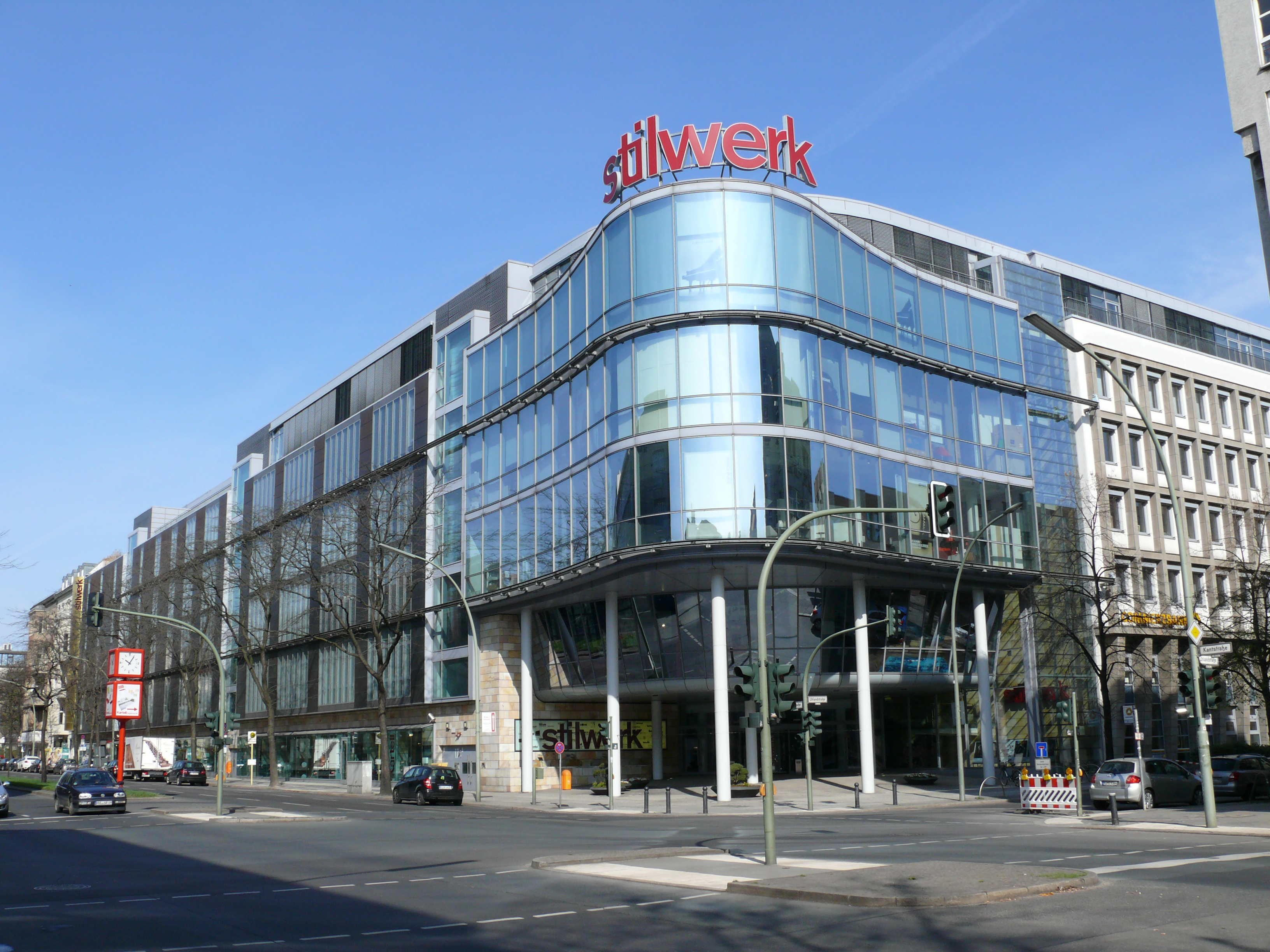 Berlin-Charlottenburg Kantstraße Stilwerk